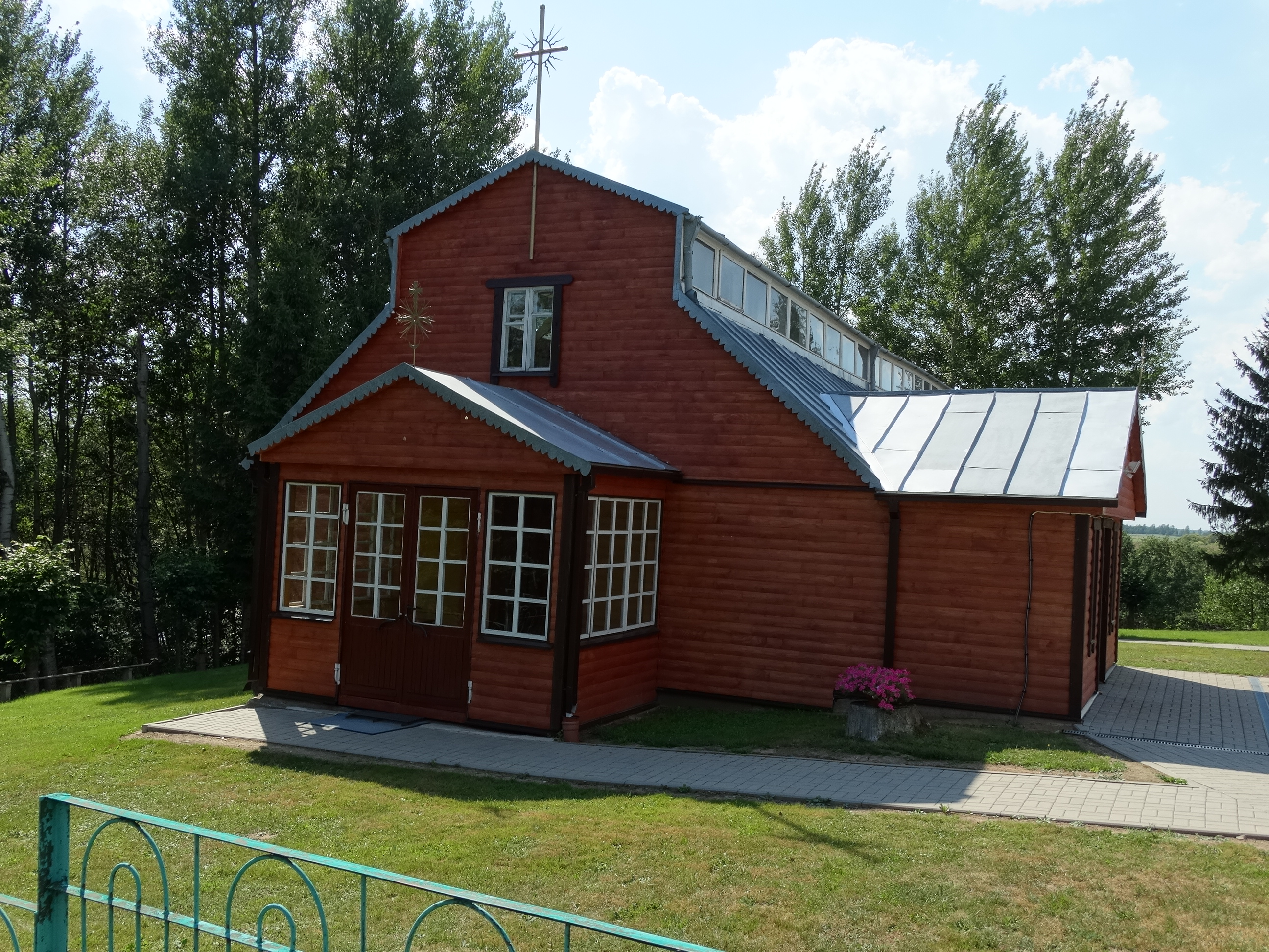 Catholic church, Juodupė, Rokiškis District, Lithuania